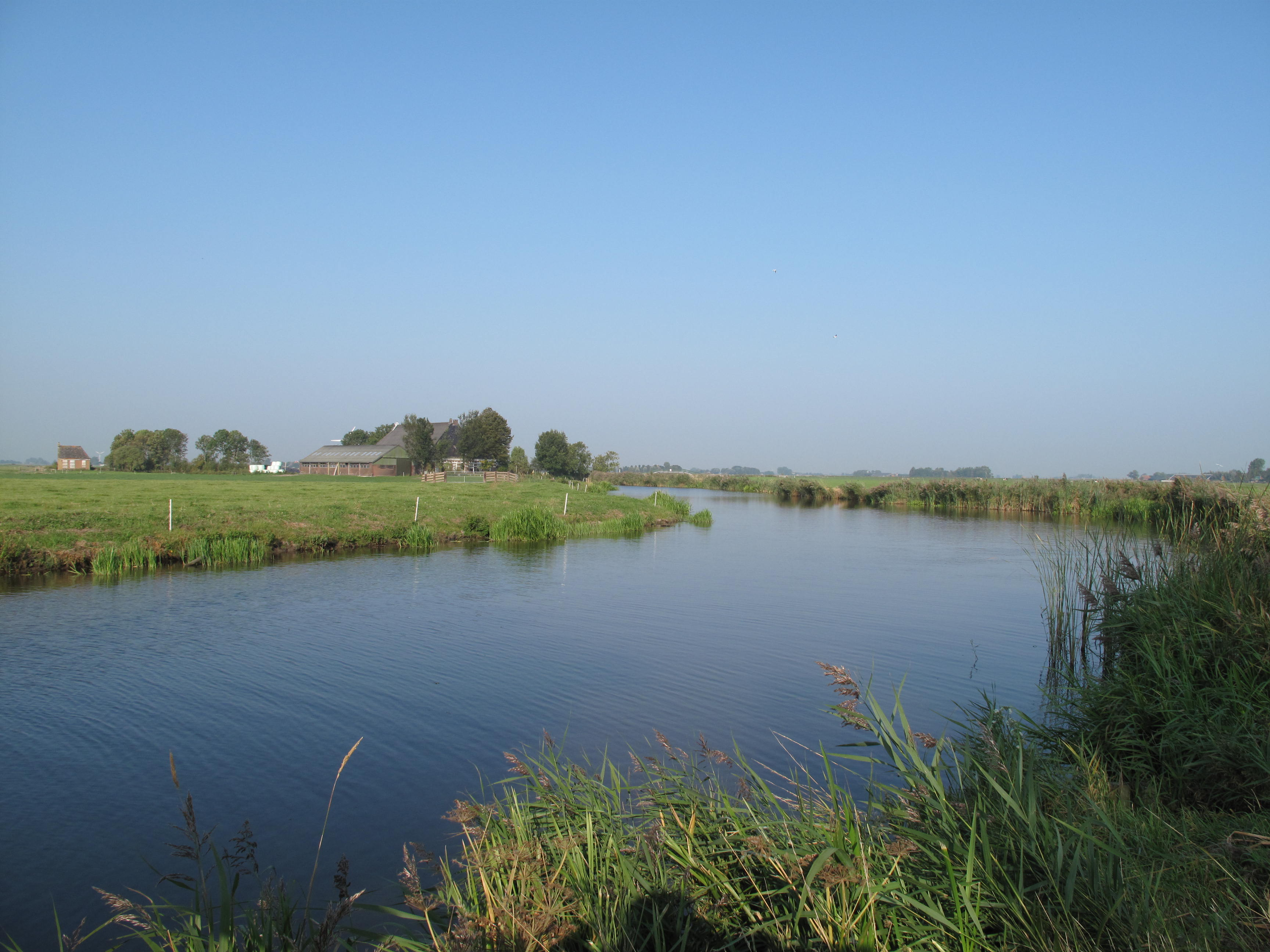 between Tichelwurk en Leeuwarden, the Dokkumer Ee